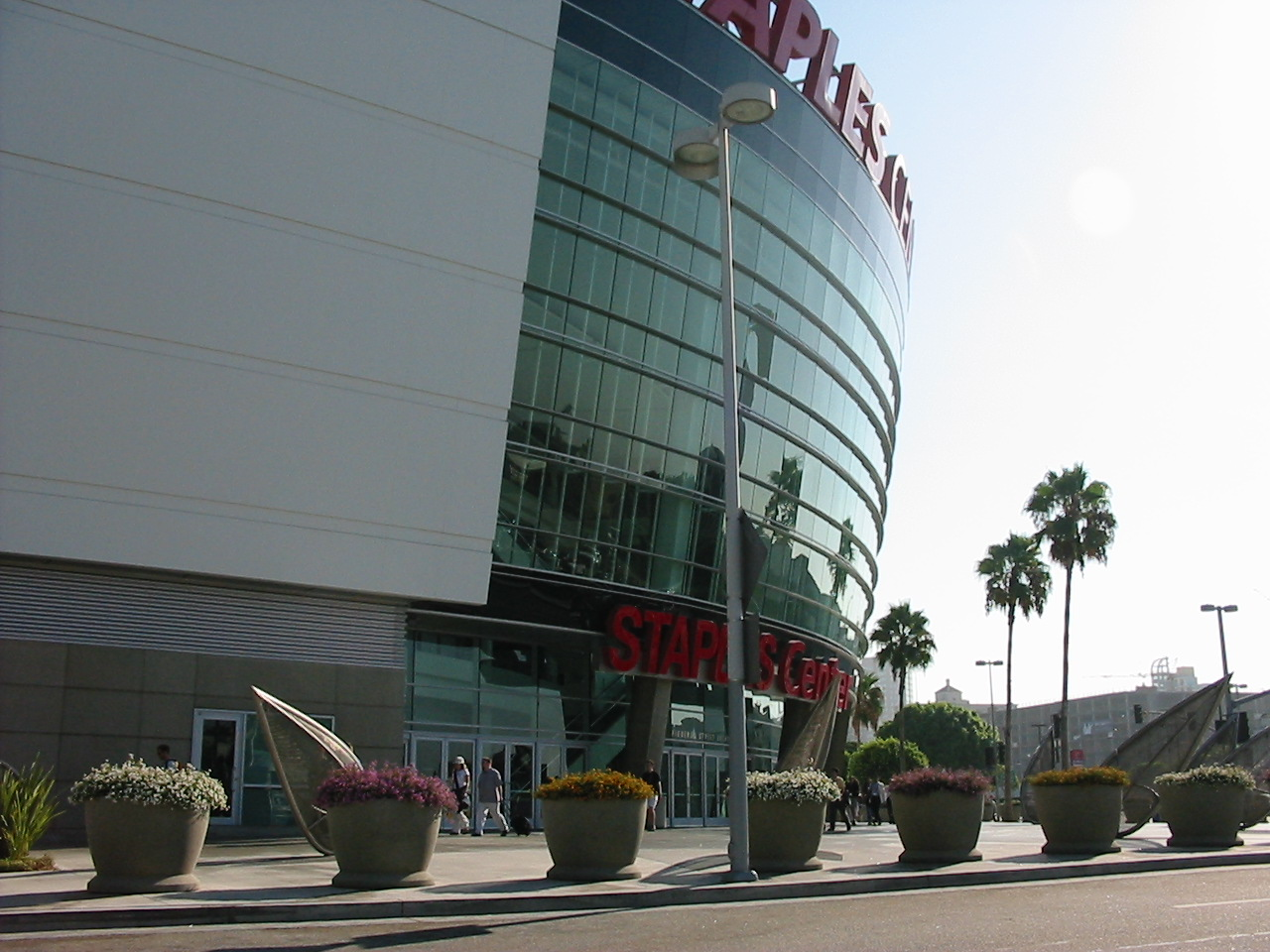 Staples_Center in Los Angeles, California from outside